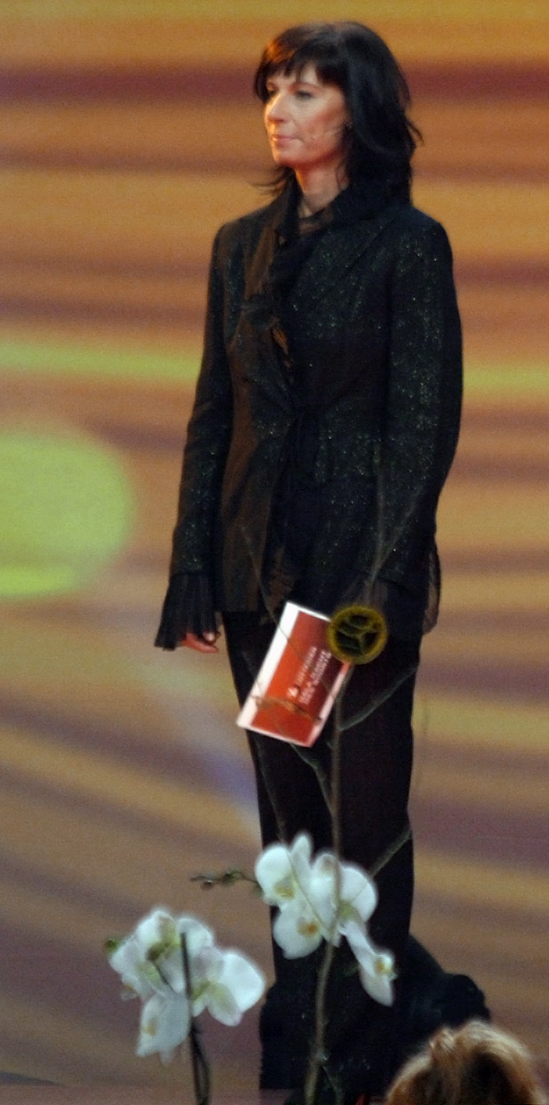 Claudia Kristofics-Binder at the presentation of the Austrian Sportspersonalities of the Year 2010 (Eventhotel Pyramide in Vösendorf, Lower Austria).